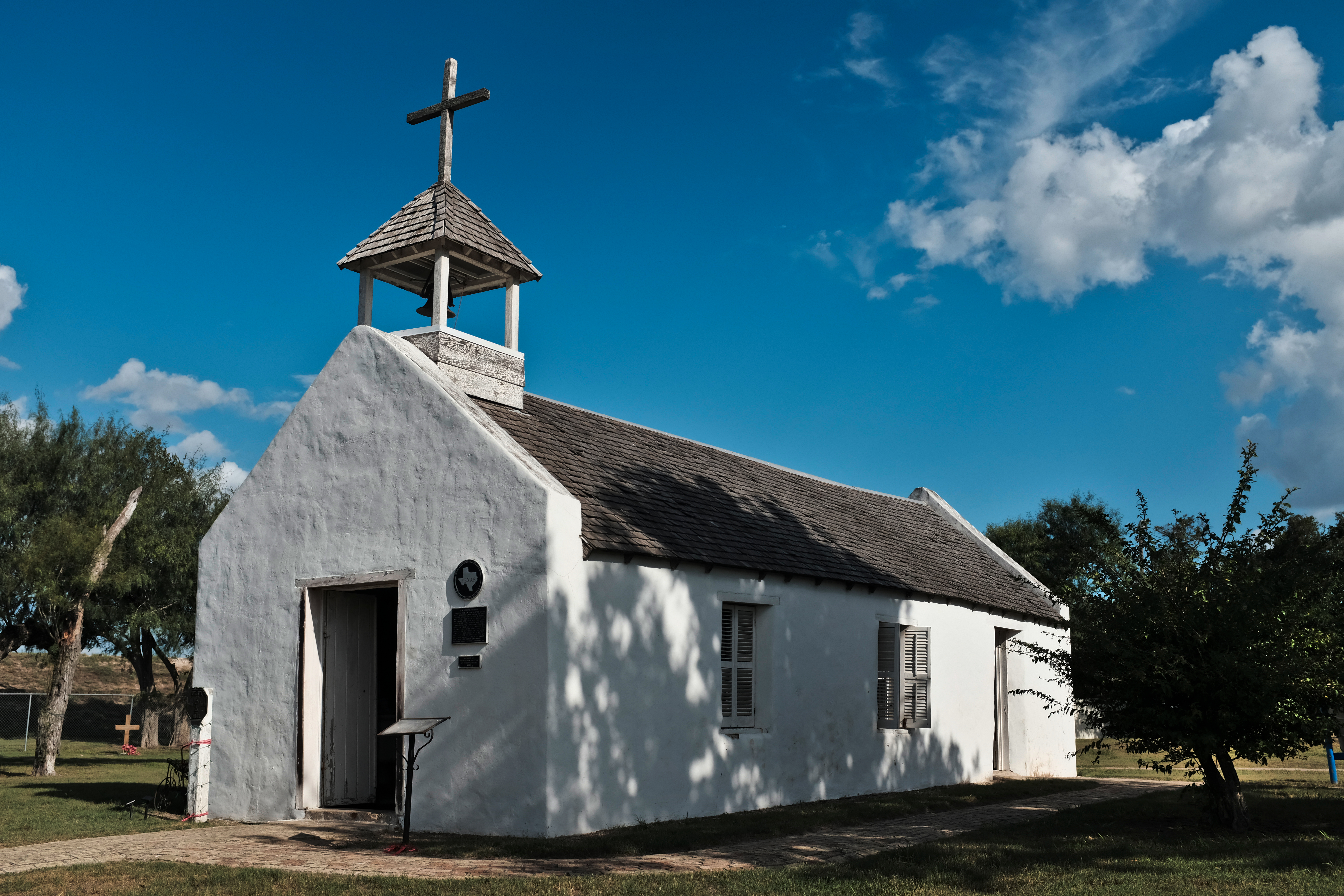 Right Side view of La Lomita Church